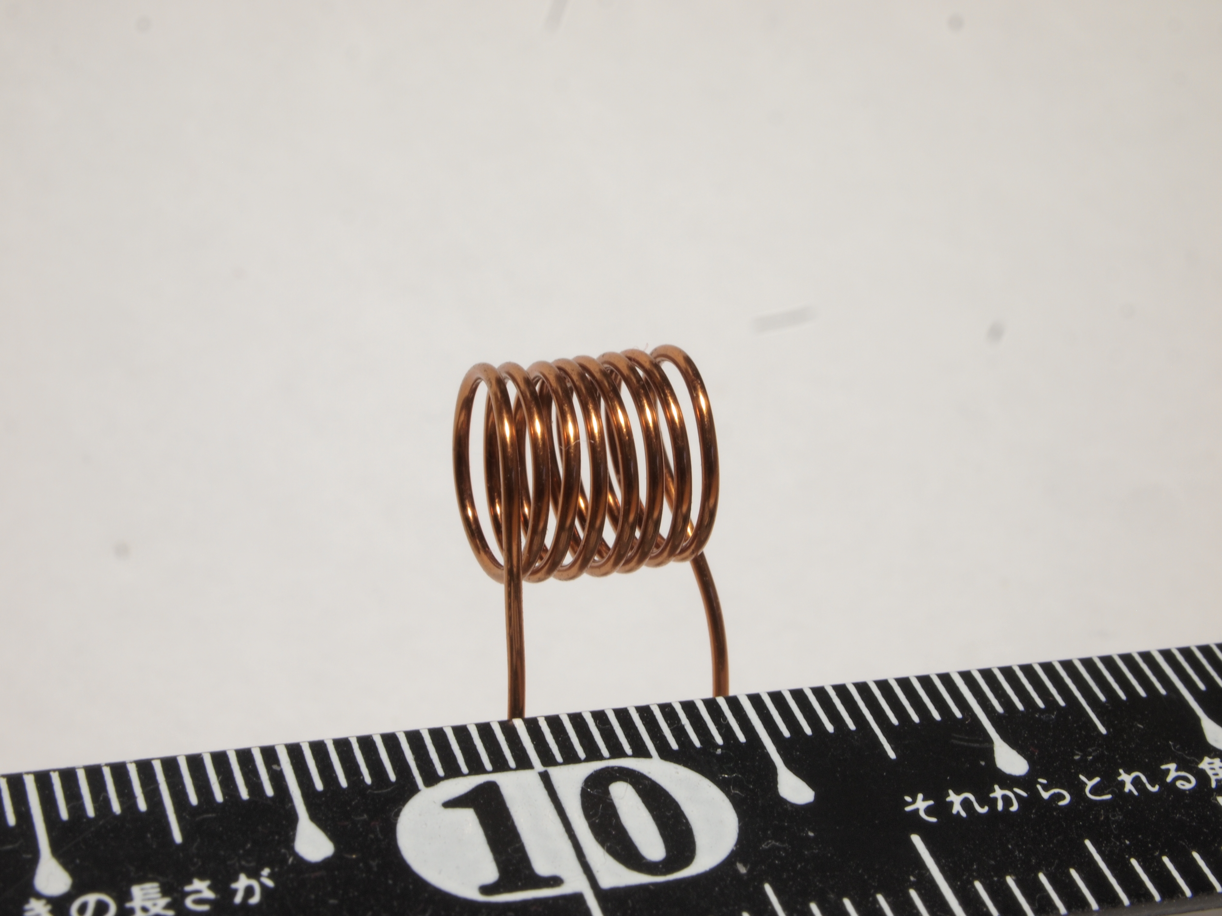 An air core inductor